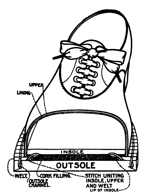 Diagram showing the construction of a Goodyear Welt sole shoe.